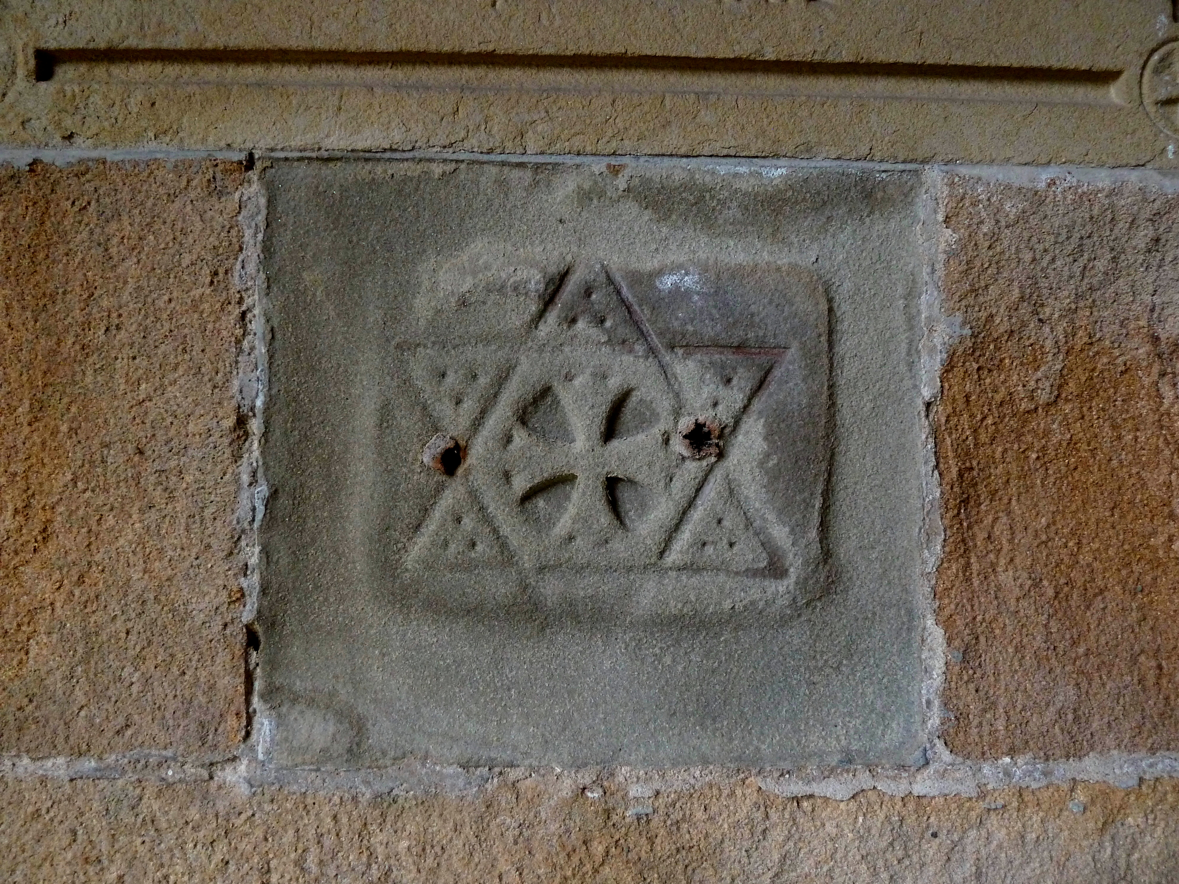 Consecration cross in porch of Church of All Saints, Otley Road, Harlow Hill, Harrogate, North Yorkshire, England. It is the cemetery chapel in Harlow Hill Cemetery, and was designed in 1870 by architects Isaac Thomas Shutt and Alfred Hill Thompson.